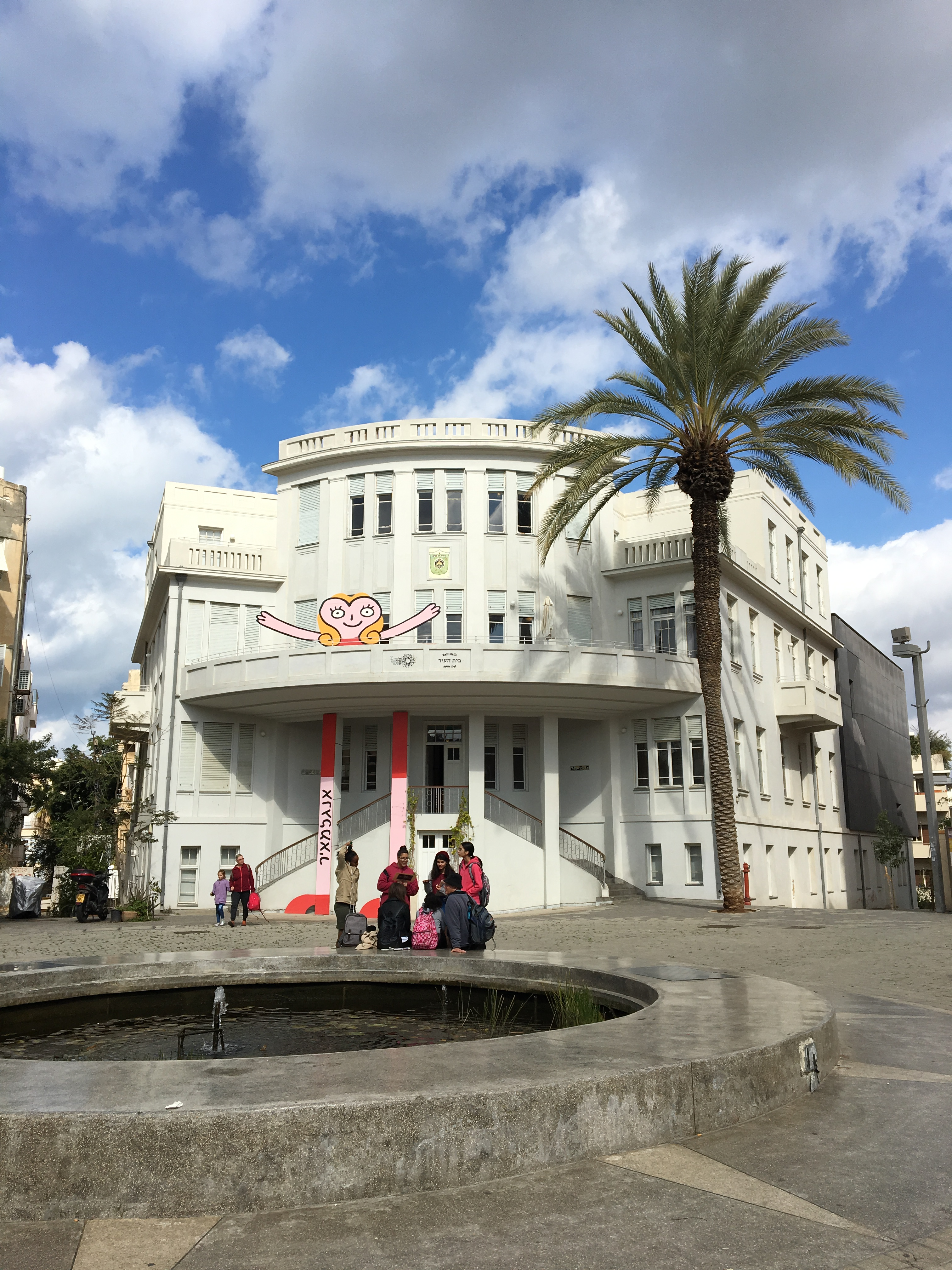 Tel aviv old city hall